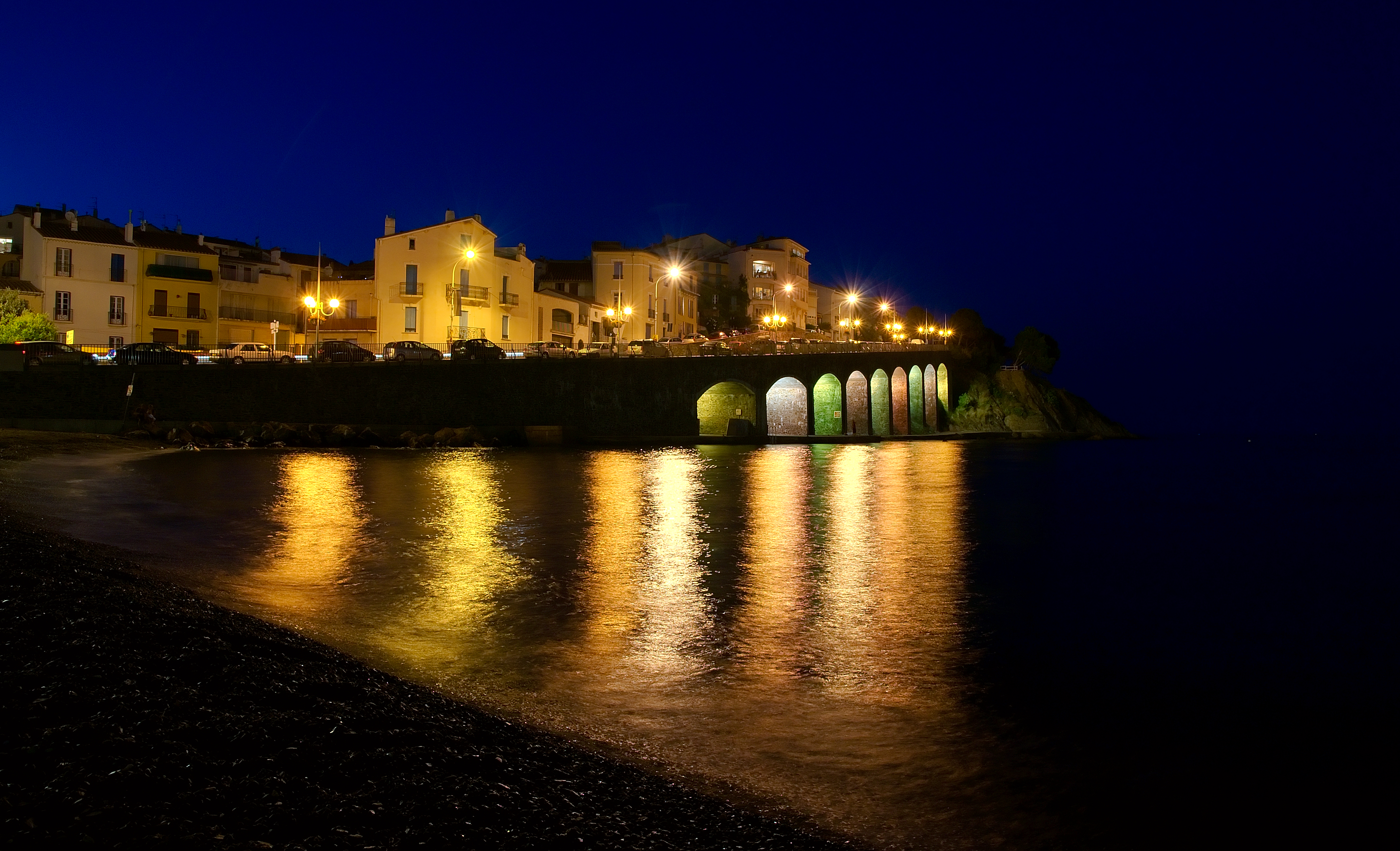 Banyuls sur mer (France)